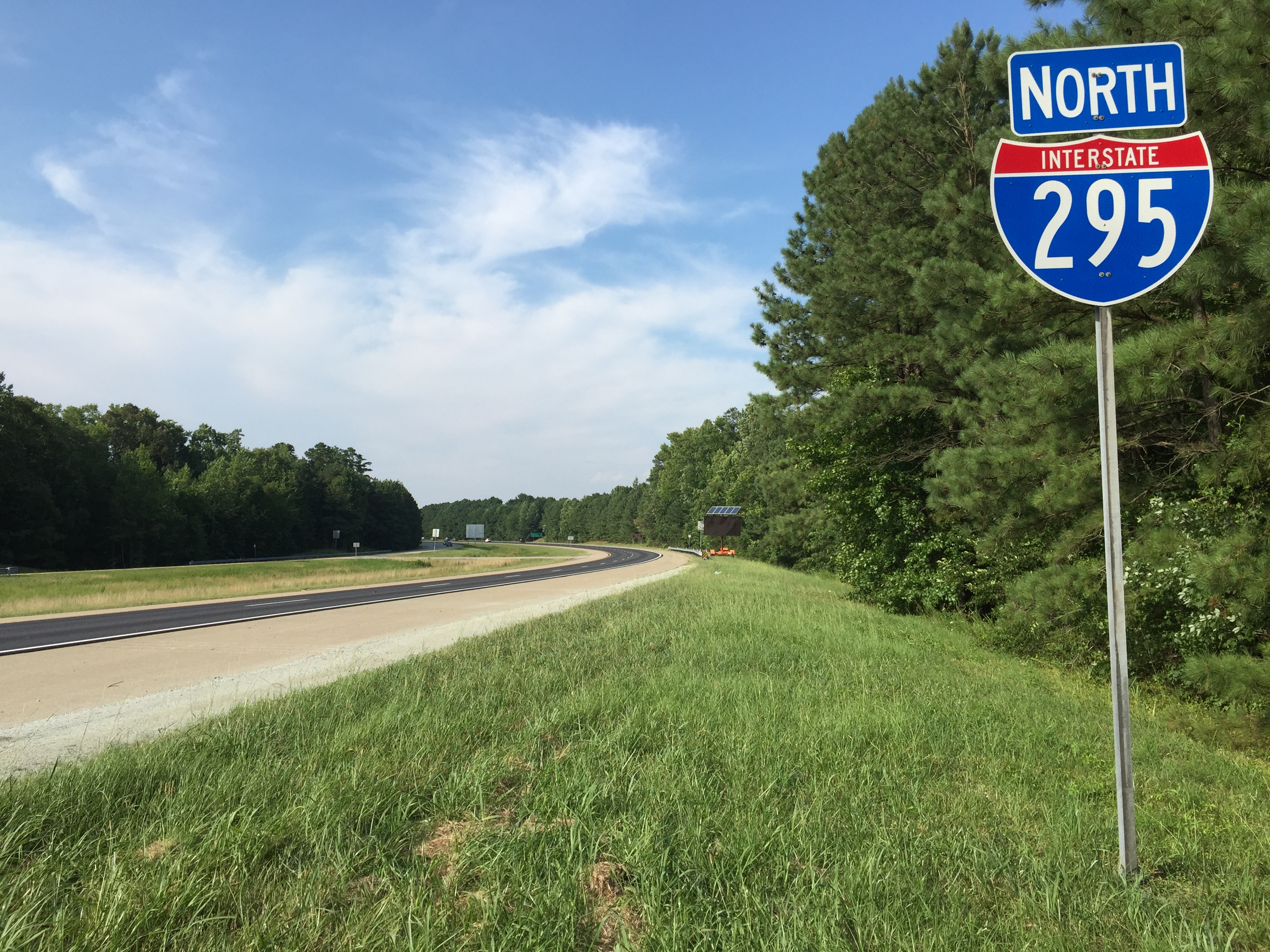 View north along Interstate 295 between Interstate 95 and Exit 3 (U.S. Route 460, Norfolk, Petersburg) in New Bohemia, Prince George County, Virginia